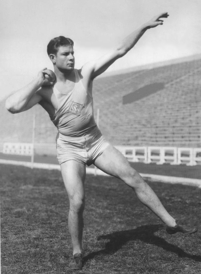 1931 Press Photo Kansas' Jim Bausch wins decathlon at National AAU Meet